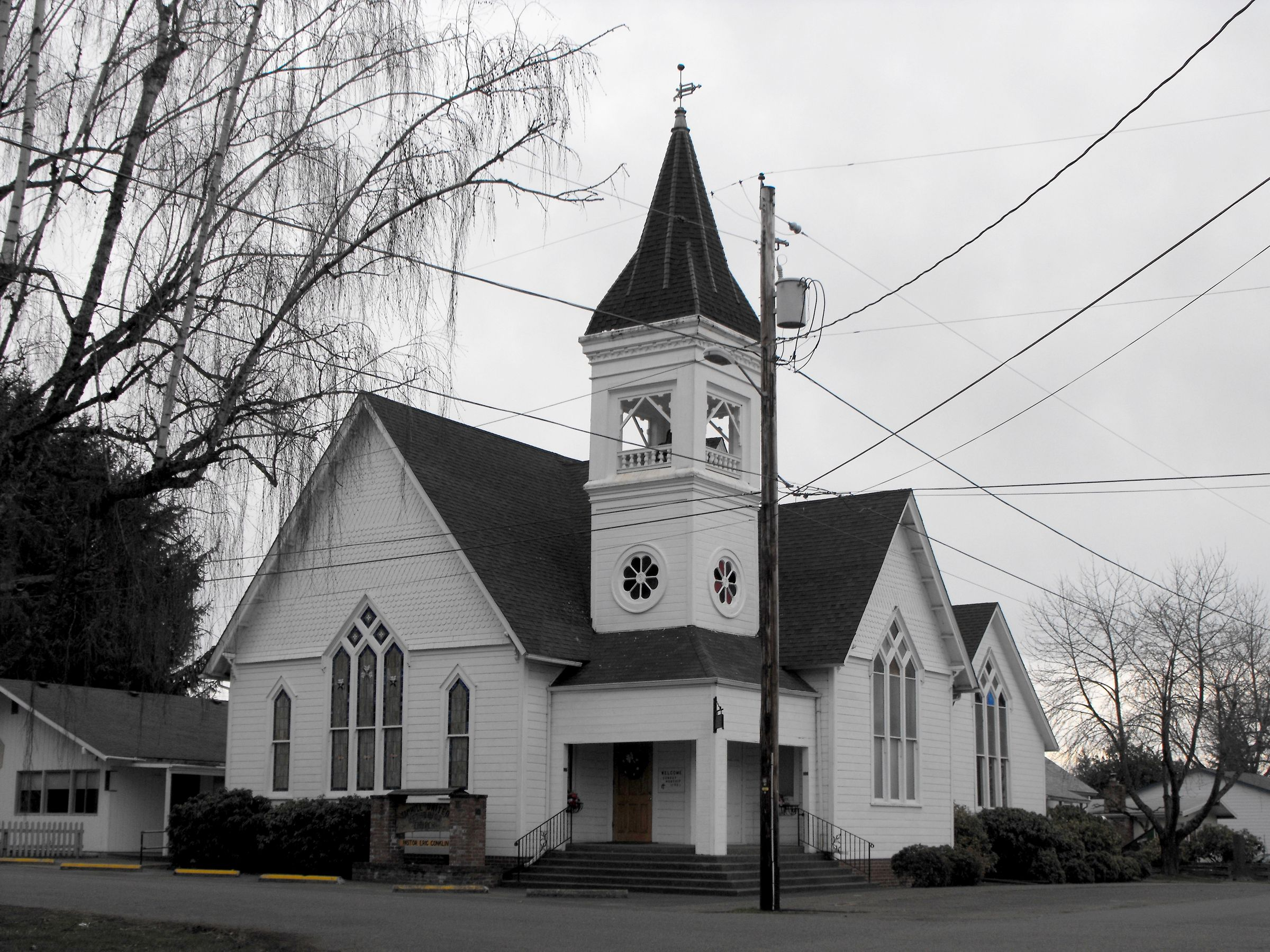 Yamhill United Methodist Church 195 S Laurel St, Yamhill, OR